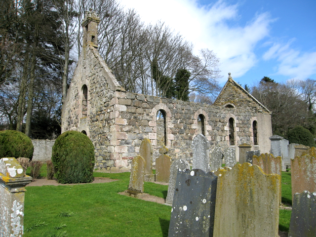 Kirkton of Culsalmond church The old church of Culsalmond was built in 1791 and abandoned in 1938. The fine bell tower dates from the 17th century. In the kirkyard there is an old mort house and a watch house designed to protect the newly dead from the body snatchers who supplied the anatomy schools in Aberdeen.